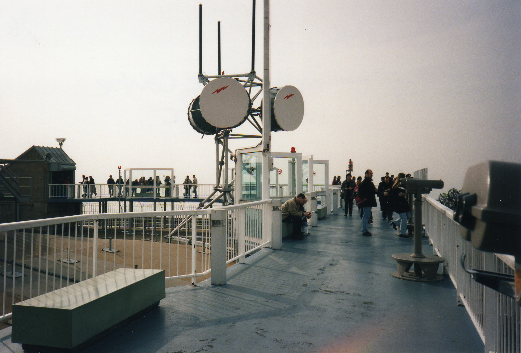 2 World Trade Center's (the South Tower) observation deck, March 1998.